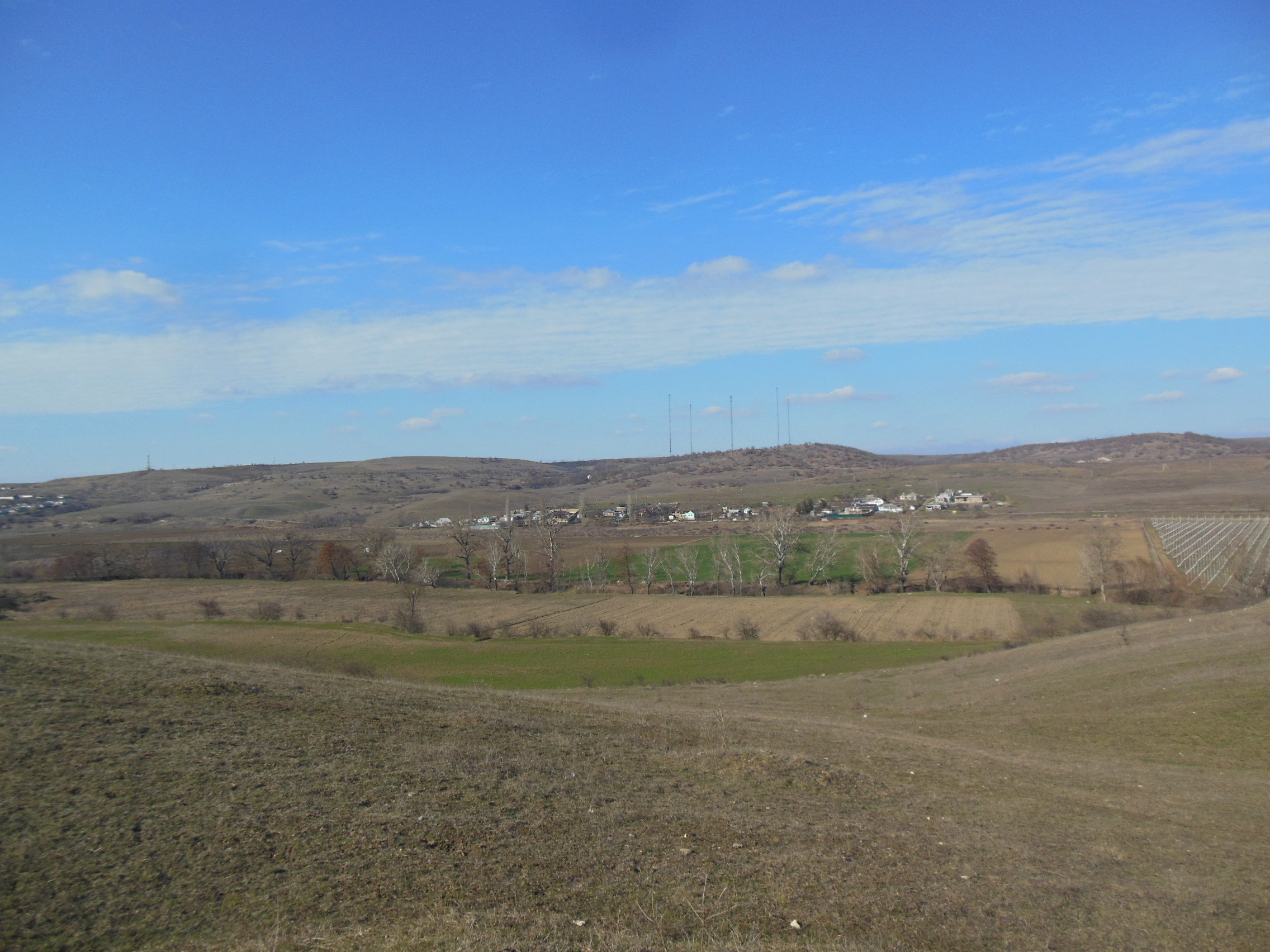 Village Stalnoe, Bakhchisaray Raion, Crimea.